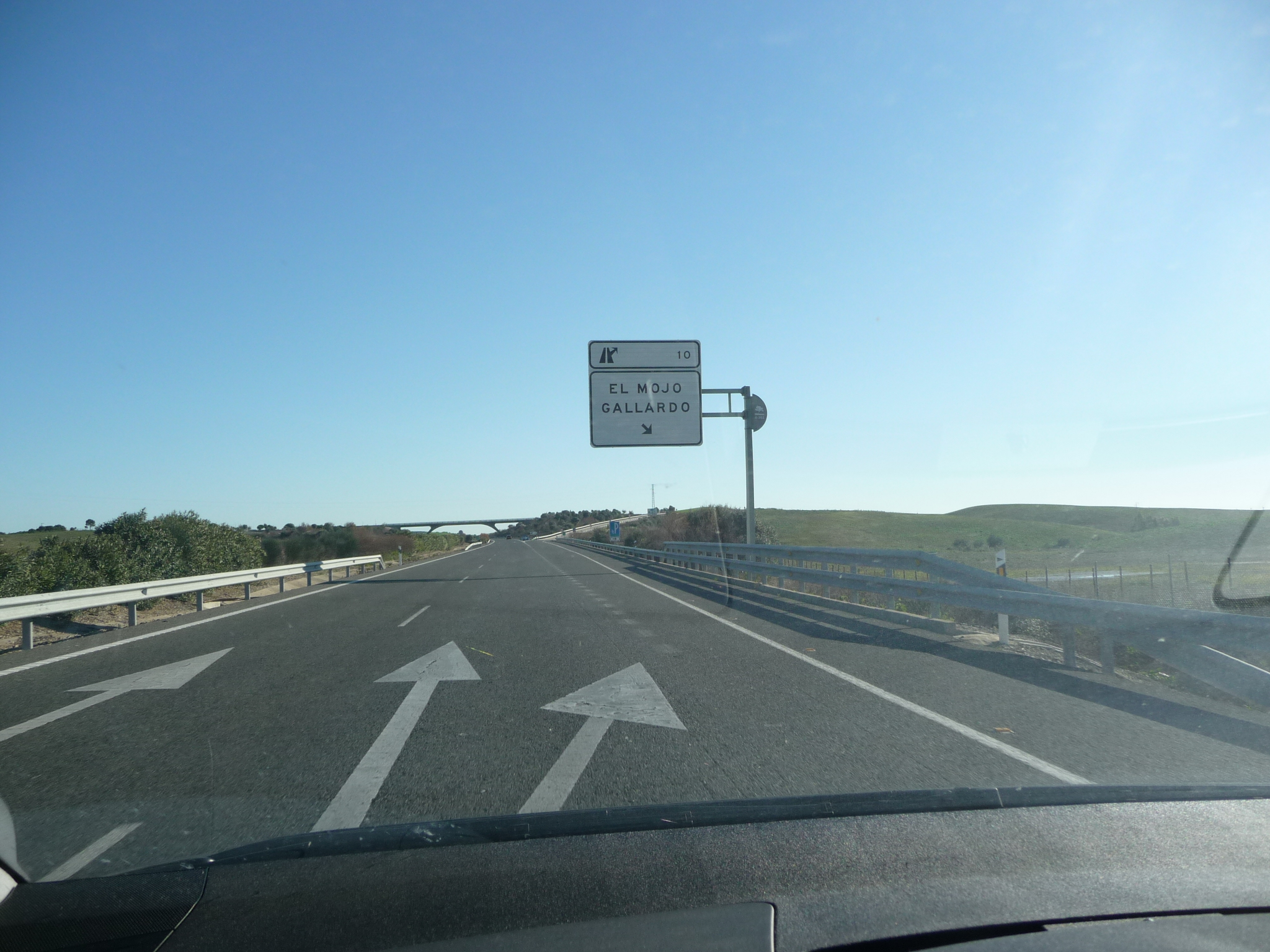 Road sign to El Mojo-Baldío de Gallardo